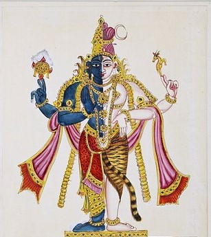 Harihara